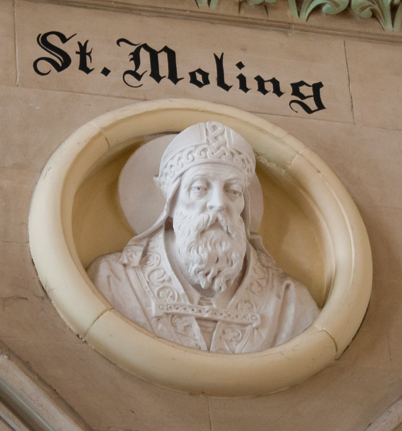 Close-up view of relief of St. Moling at the west end of the nave above one of the piers separating the nave from the entrance hall.